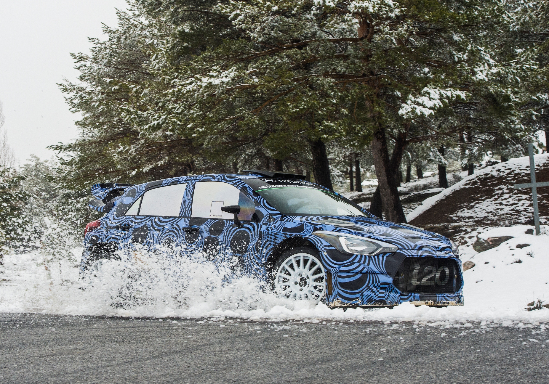 A New Generation Hyundai i20 WRC undergoing testing for the upcoming 2016 World Rally Championship season.